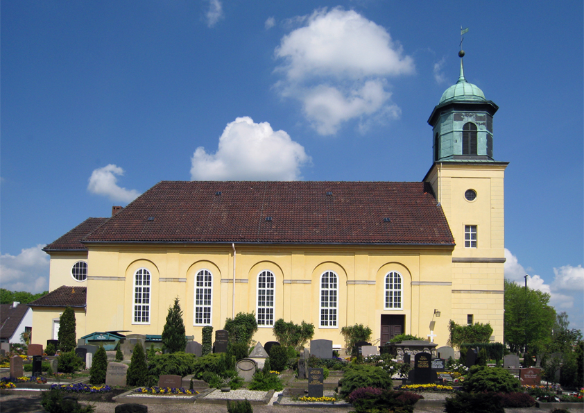 The church Horner Kirche in Bremen, Germany.